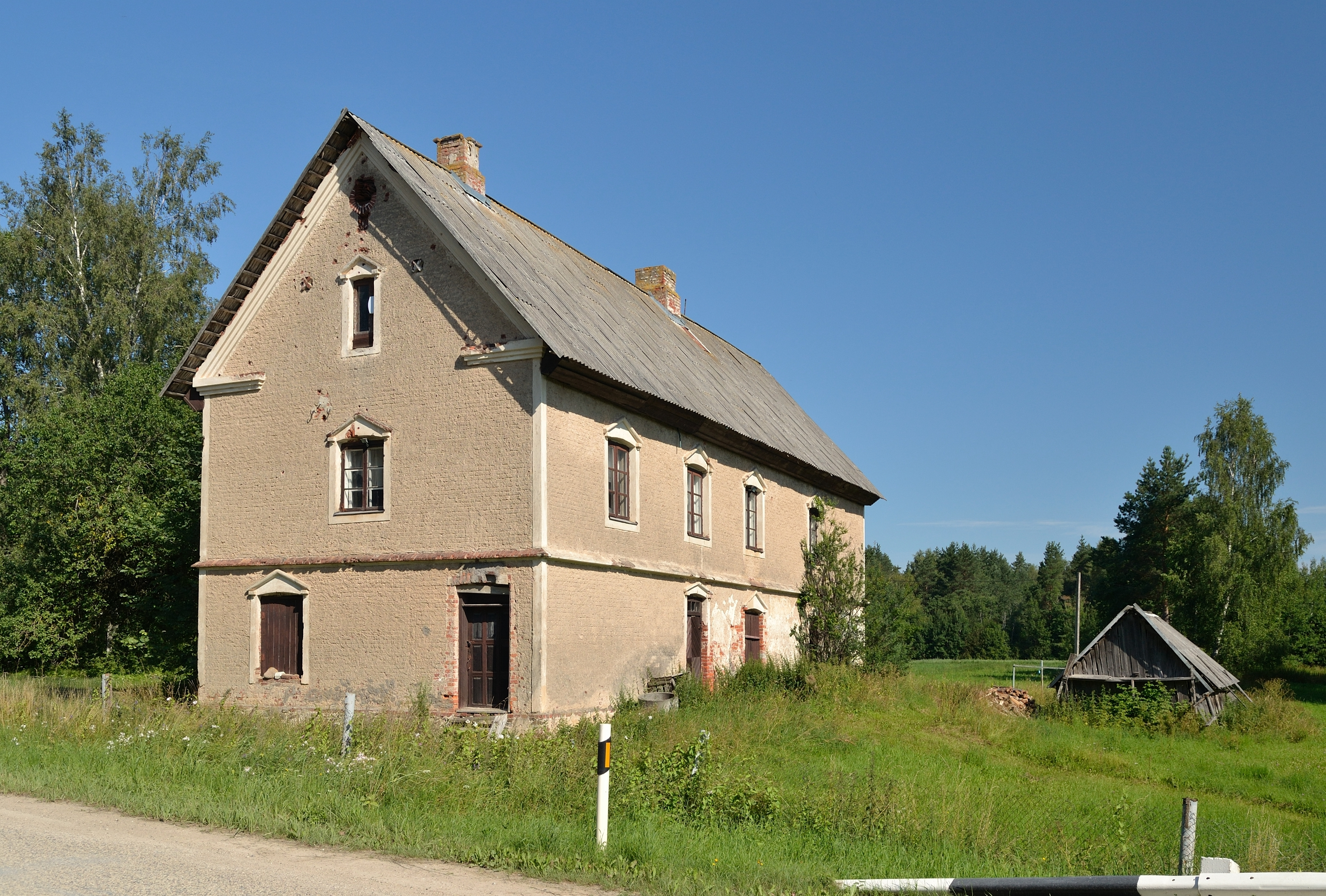 Kärgula manor ancillary building